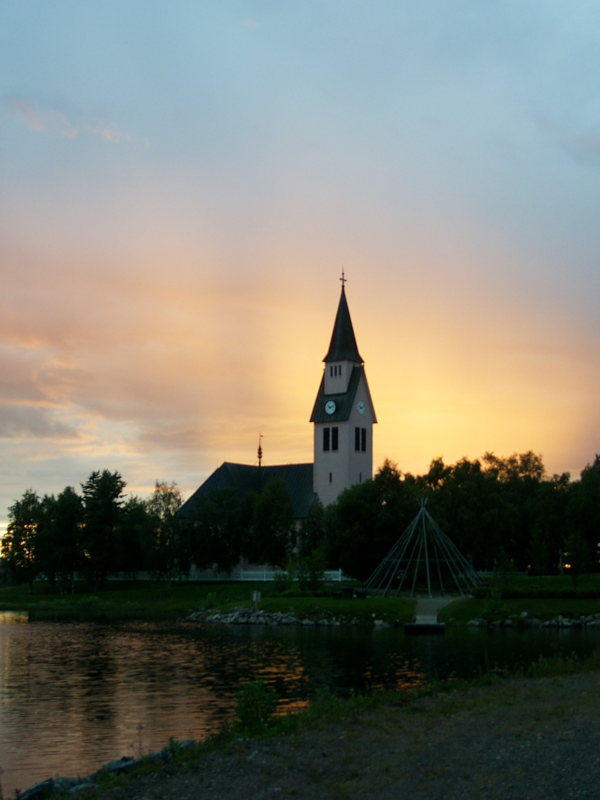 Church of Arjeplog, Sweden.